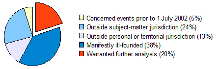 Initial review of complaints to the International Criminal Court, as of 1 February 2006. Data from Update on communications received by the Office of the Prosecutor of the ICC, pp. 2-3 (10 February 2006).